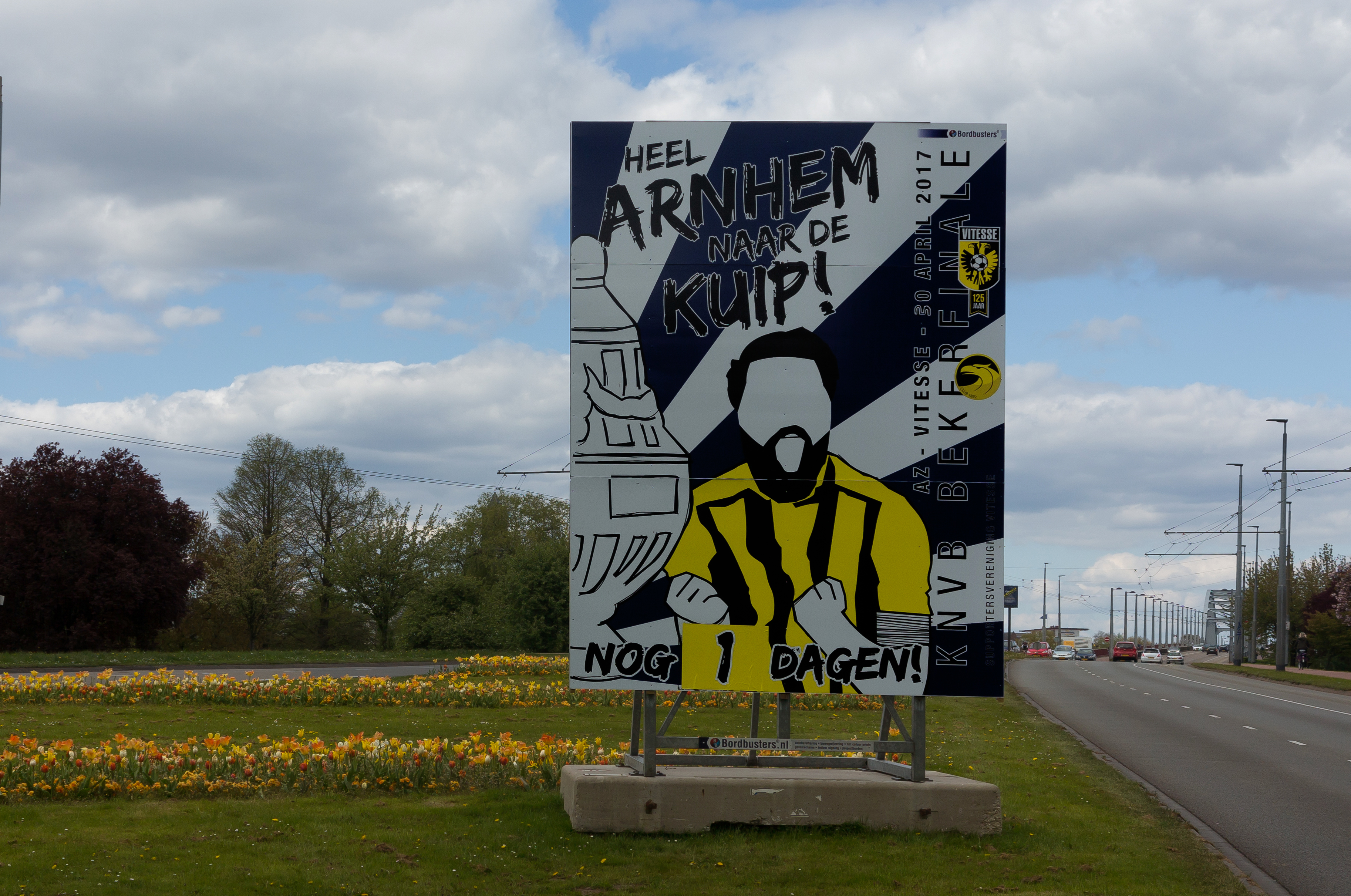 Arnhem-Zuid, promotion-board for Dutch Cup Final Vitesse-AZ